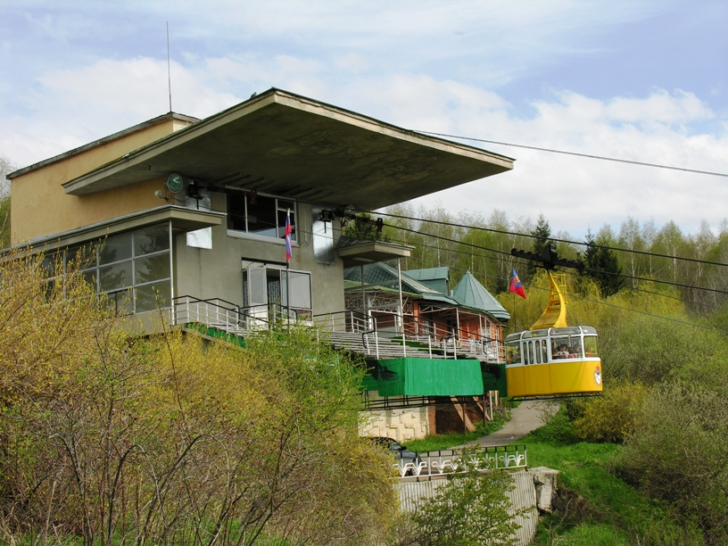 Funicular railway to the olympic complex in Kislovodsk